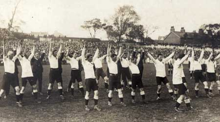 1908 Wallaby War Cry